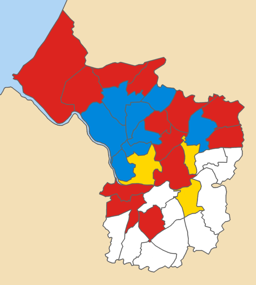 Results of the 1986 local elections in Bristol Colours: Conservative Labour SDP-Liberal Alliance No election in 1986